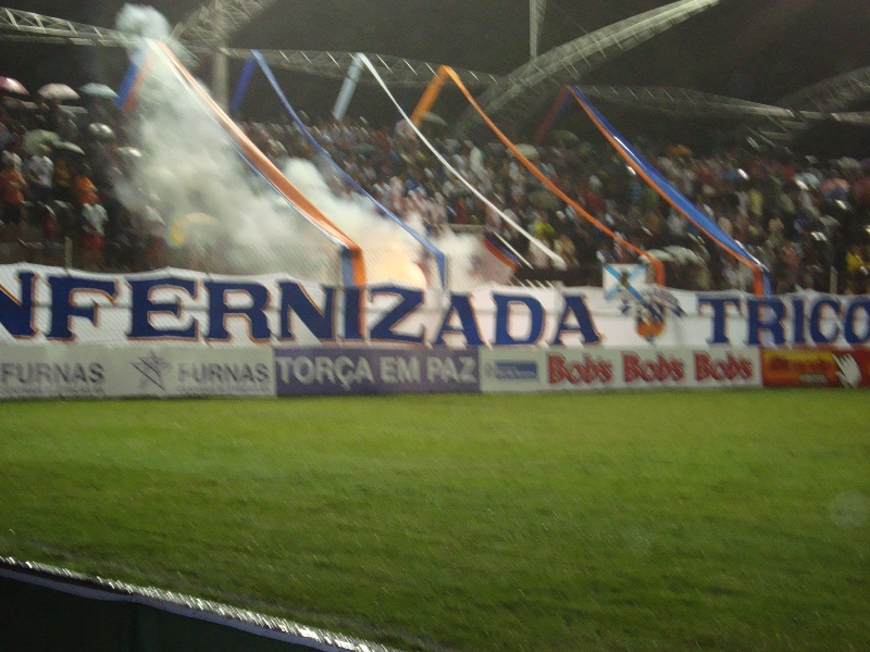 Infernizada Tricolor